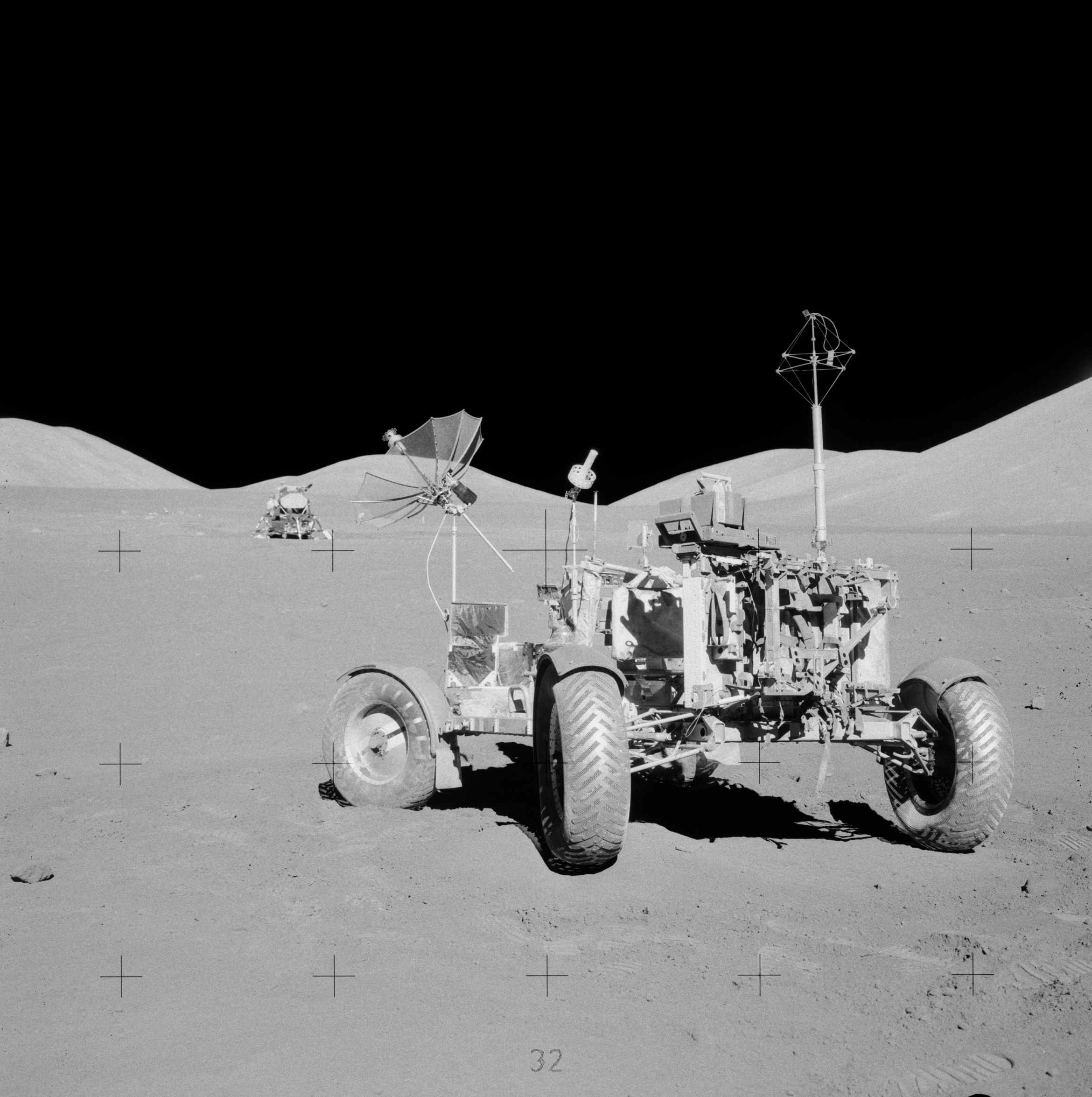 A photograph taken by NASA astronaut Gene Cernan of the Apollo 17 Lunar Roving Vehicle at its final resting place in the Taurus-Littrow valley. The Lunar Module can be seen in the background.